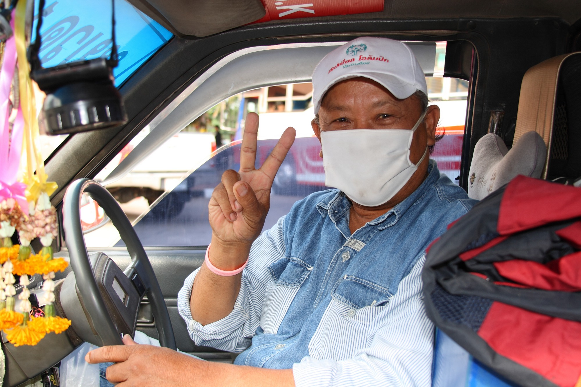 Songthaew driver in Ubon Ratchathani